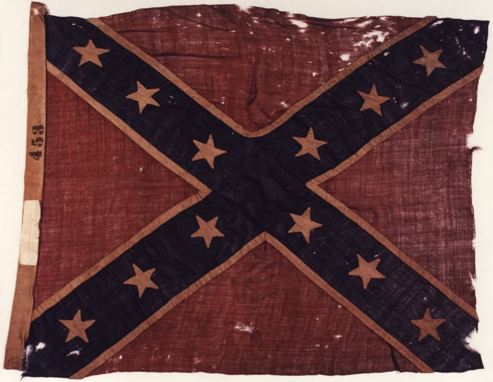 6th Alabama Cavalry flag, Alabama Dept. of Archives and History